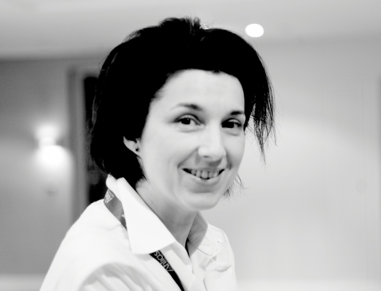 Desiree MiloshevicDesiree Miloshevic